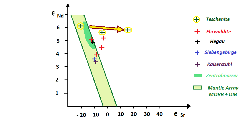 Strontium-neodyme isotope diagram showing the composition of teschenites (green crosses with yellow circles) in comparison with other European magmatic rocks.